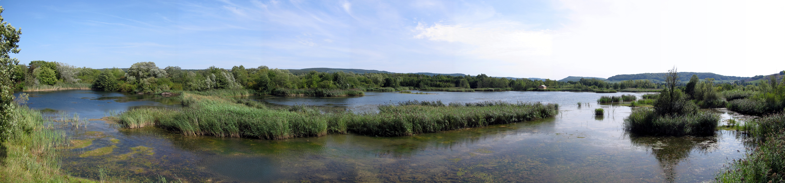 Natural park Haff Remich, Luxembourg